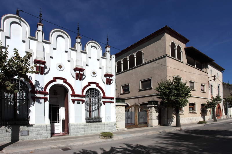 Modernisme: Casa de les punxes